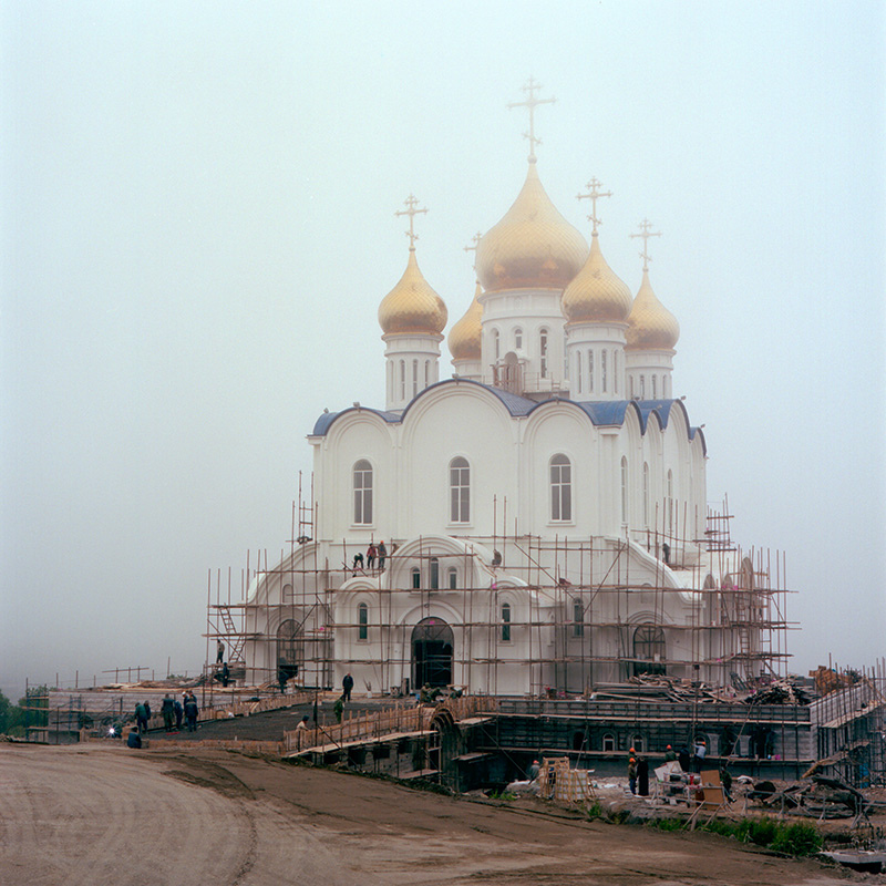 An unfinished church at Petropavlovsk-Kamchatsky (Holy Trinity Cathedral)